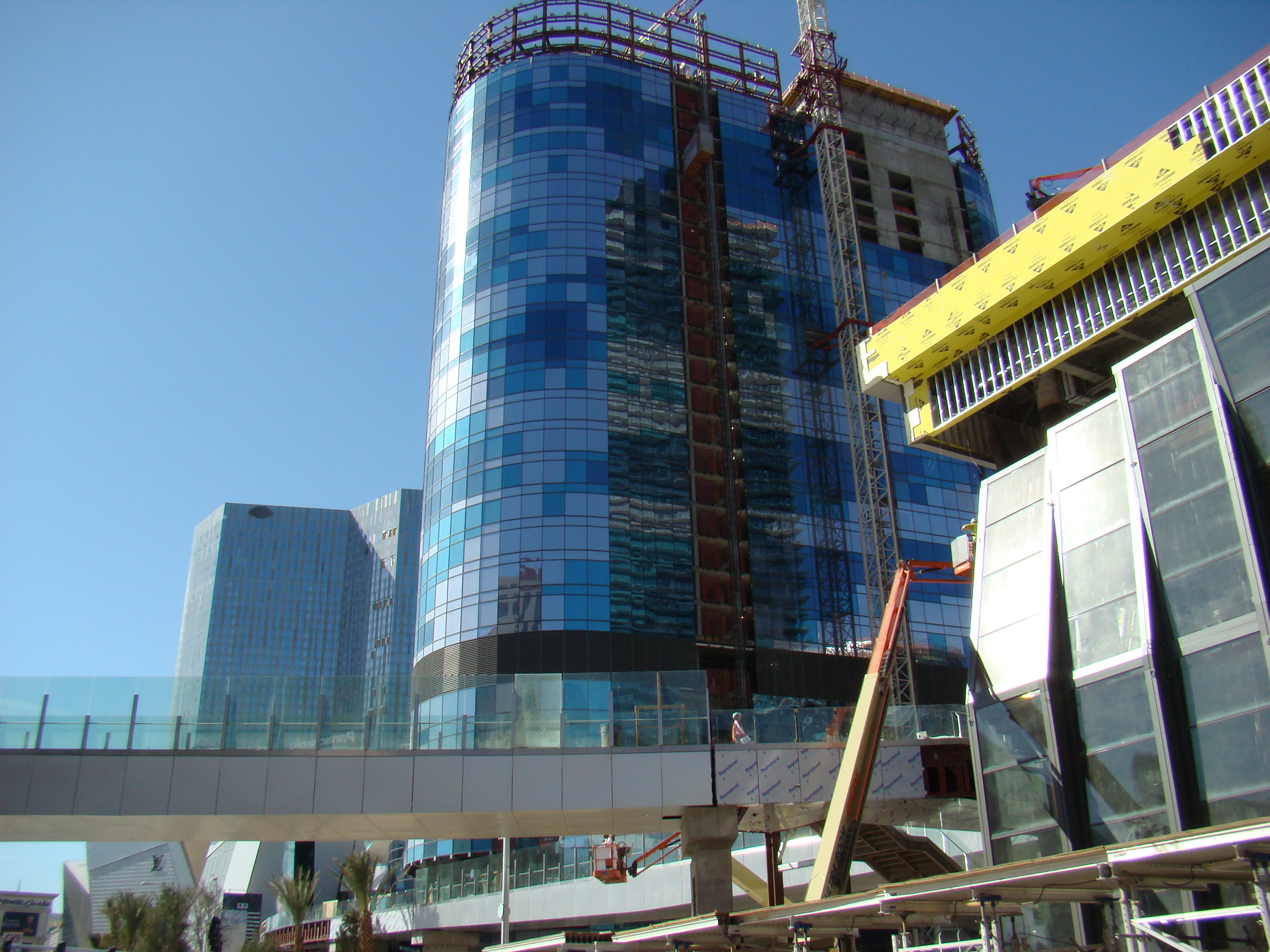 Harmon Hotel nearing completion, Mandarin Oriental and Crystals visible